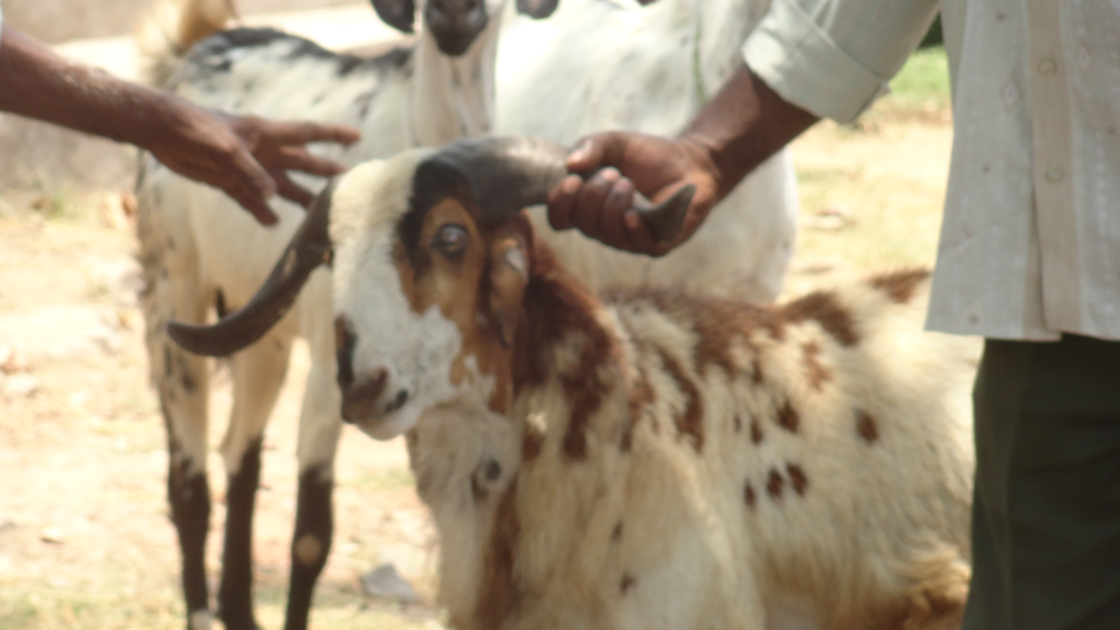 Village panchayat office Potharlanka, of Guntur dist.